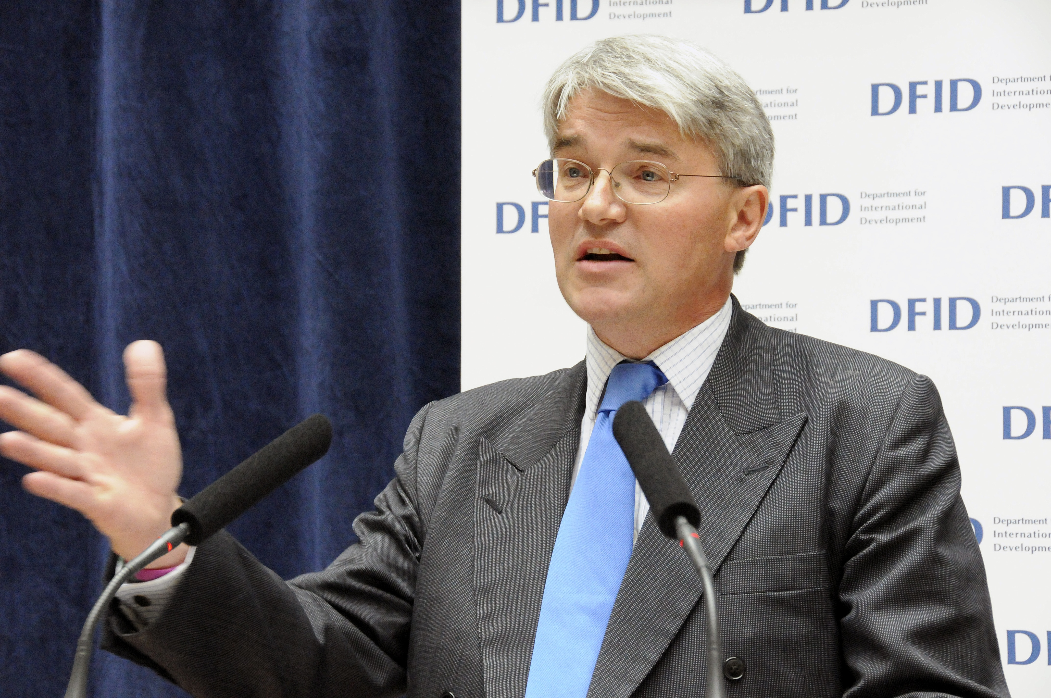 Andrew Mitchell MP, Secretary of State for International Development, speaking at the Department for International Development, London, 13 May 2010.